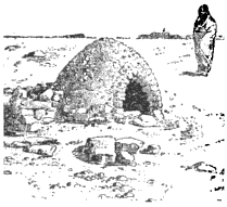 This picture's caption was "A Pueblo oven" on page 176 in the book.